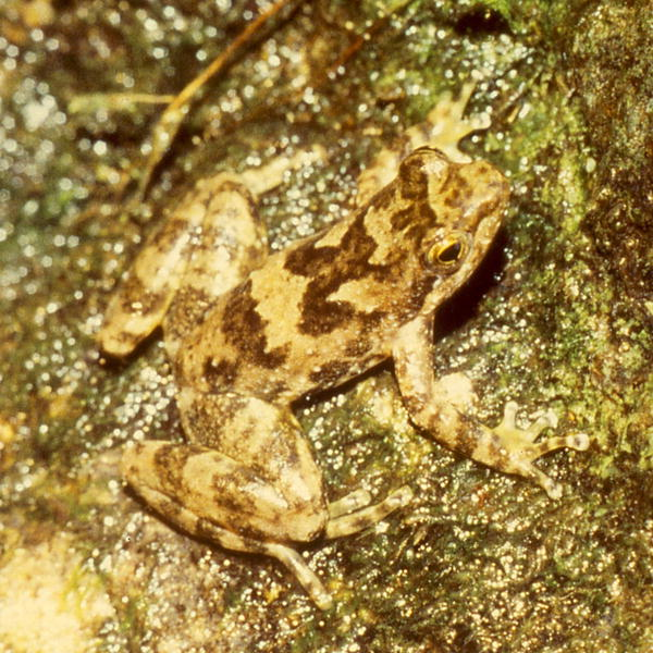 Eungella Torrent Frog (Taudactylus eungellensis) found here (Photo: Richard Retallick)